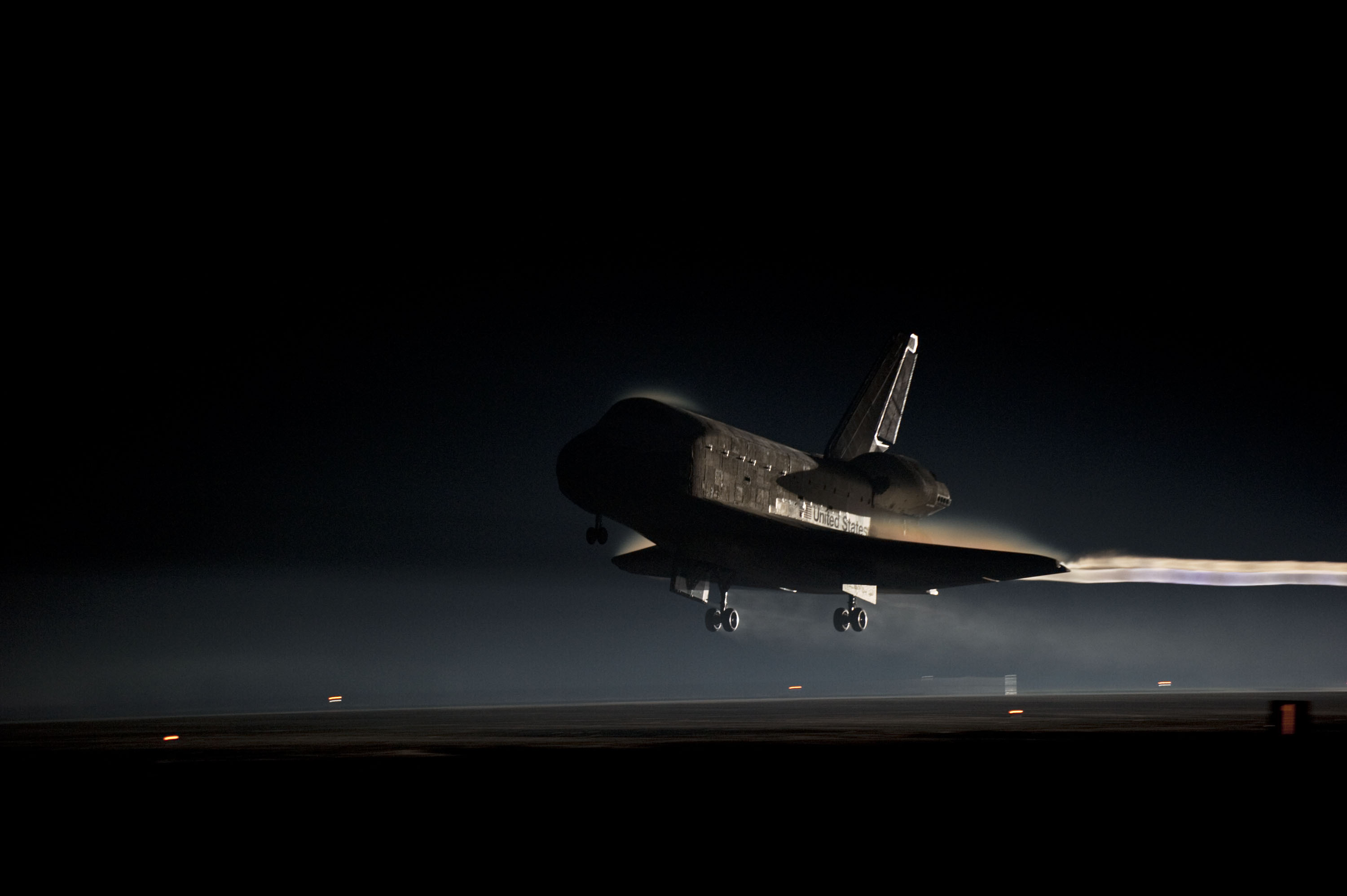 CAPE CANAVERAL, Fla. – Ribbons of steam and smoke trail space shuttle Atlantis as it nears touch down on the Shuttle Landing Facility's Runway 15 at NASA's Kennedy Space Center in Florida for the final time. Securing the space shuttle fleet's place in history, Atlantis marked the 26th nighttime landing of NASA's Space Shuttle Program and the 78th landing at Kennedy. Main gear touchdown was at 5:57:00 a.m. EDT, followed by nose gear touchdown at 5:57:20 a.m., and wheelstop at 5:57:54 a.m. On board are STS-135 Commander Chris Ferguson, Pilot Doug Hurley, and Mission Specialists Sandra Magnus and Rex Walheim. On the 37th shuttle mission to the International Space Station, STS-135 delivered more than 9,400 pounds of spare parts, equipment and supplies in the Raffaello multi-purpose logistics module that will sustain station operations for the next year. STS-135 was the 33rd and final flight for Atlantis, which has spent 307 days in space, orbited Earth 4,848 times and traveled 125,935,769 miles. For more information visit